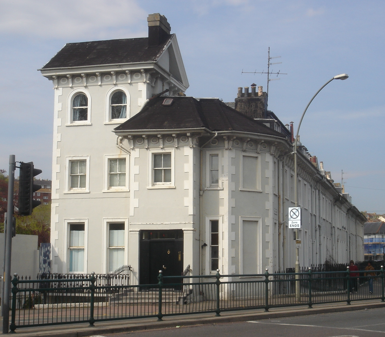 33–48 Park Crescent, Brighton, City of Brighton and Hove, England. Part of a crescent of houses built in about 1850 by Amon Wilds. Listed at Grade II* by English Heritage (IoE Code 481022)